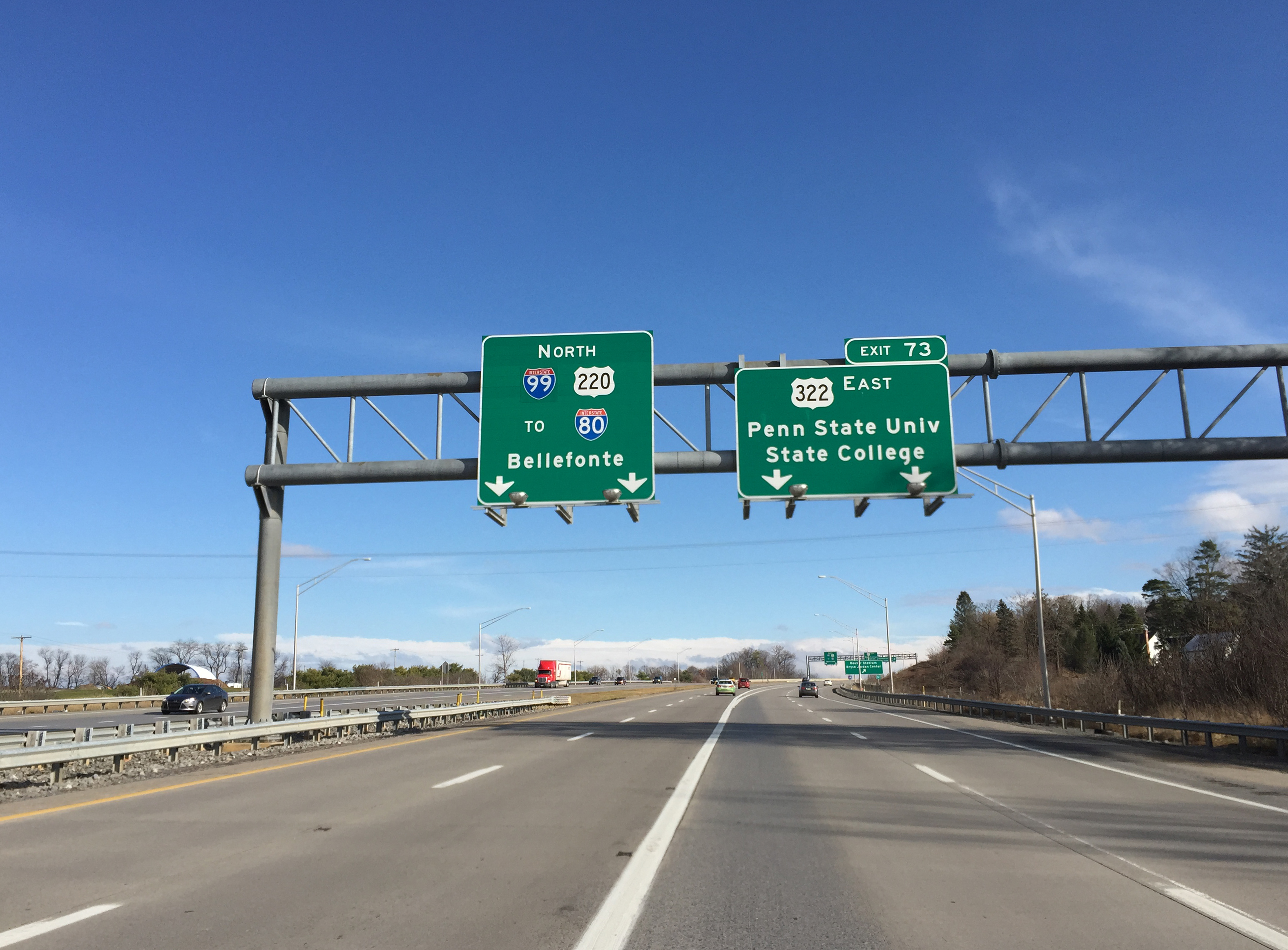 View north along Interstate 99 and U.S. Route 220 at Exit 73 (East U.S. Route 322, Penn State University, State College) in College Township, Pennsylvania